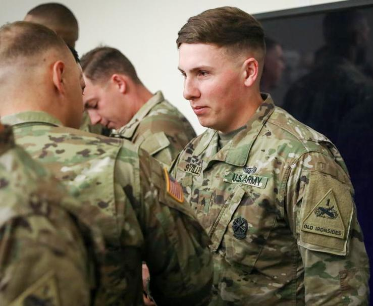 Soldiers from the 1st Armored Division are awarded the Master Gunner Identification Badge